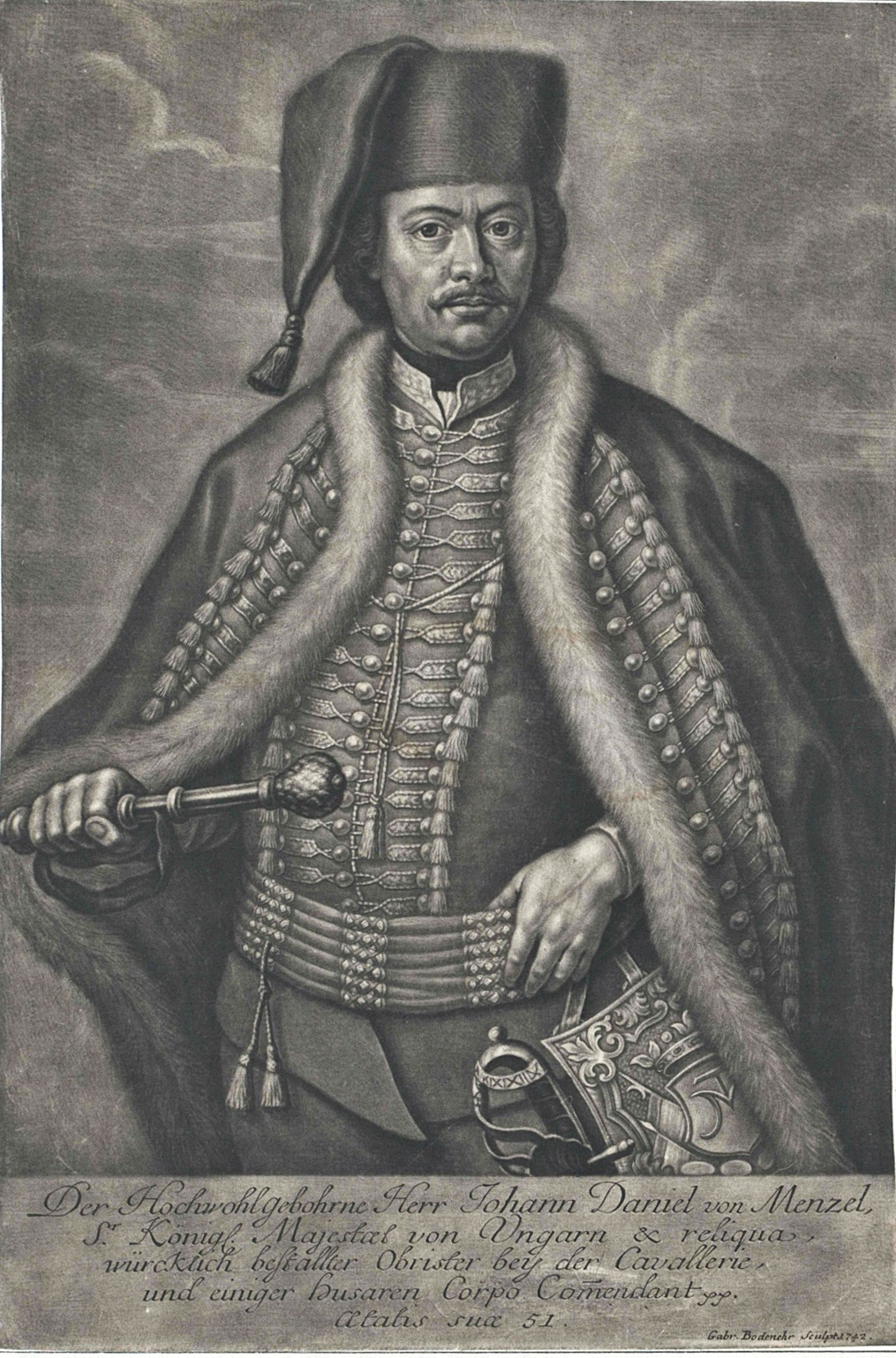 Johann Daniel von Menzel (1698-1744), ungarischer Husarengeneral